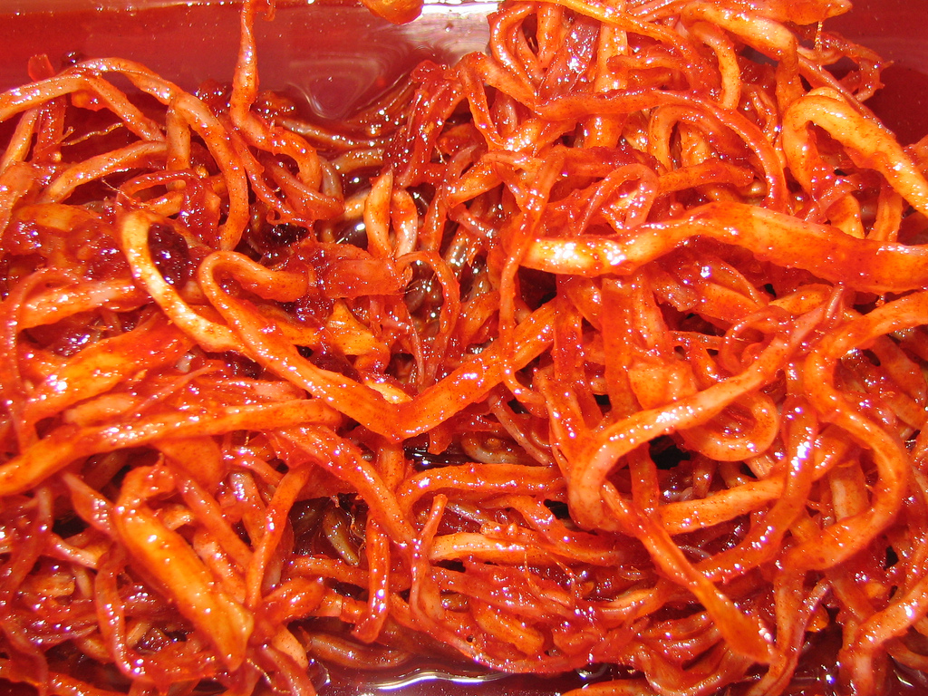 Ojingeochae bokkeum (오징어채볶음), a Korean dish made by stir-frying (bokkeum in Korean) shredded dried squid (ojingeochae) in a mixture of gochujang (chili pepper paste), finely minced garlics, and mulyeot (syrup-like condiment) (needs correction. the photo is actually ojingeochae muchim, not ojingeochae bokkeum)